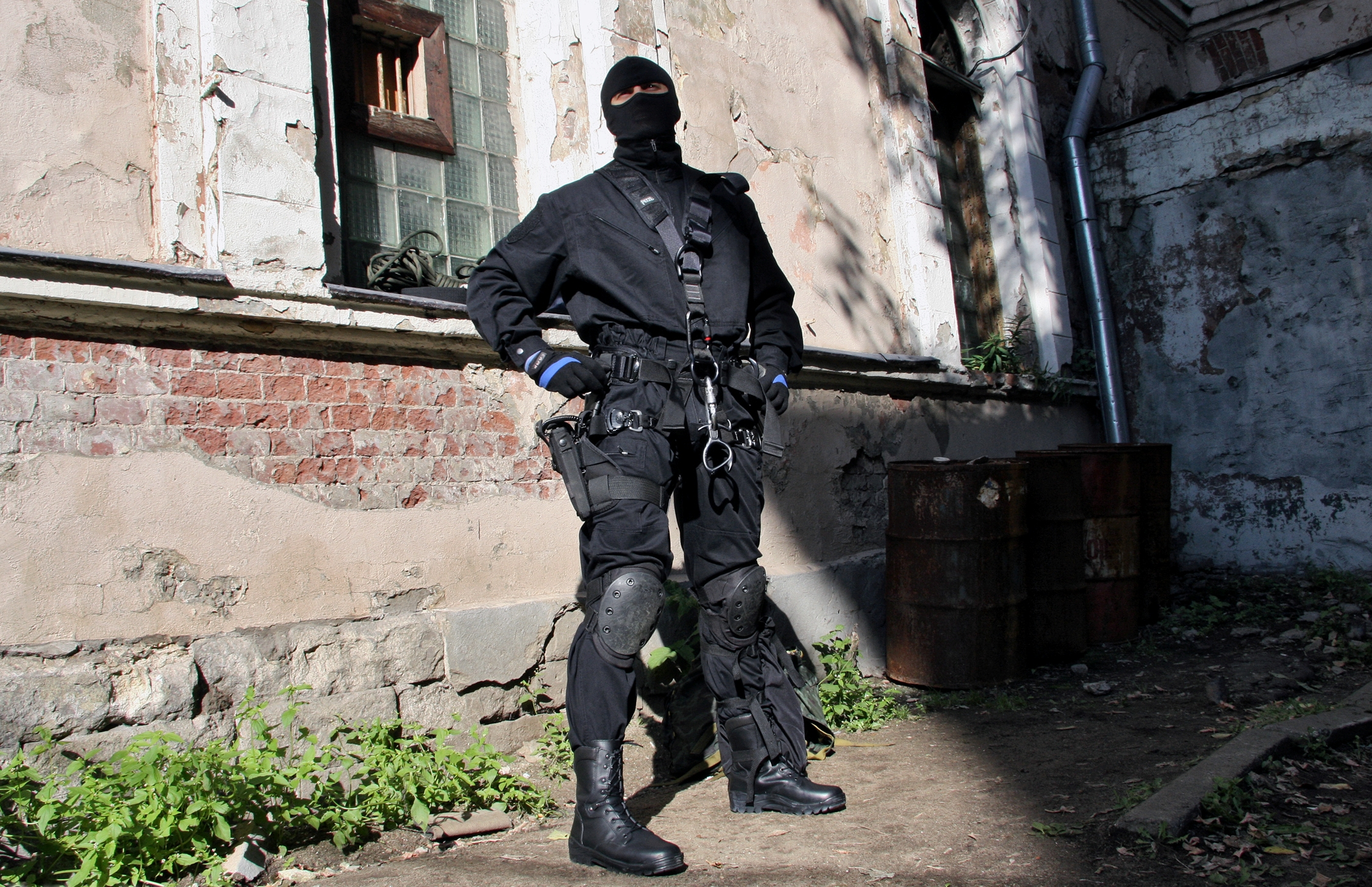 Moscow SOBR